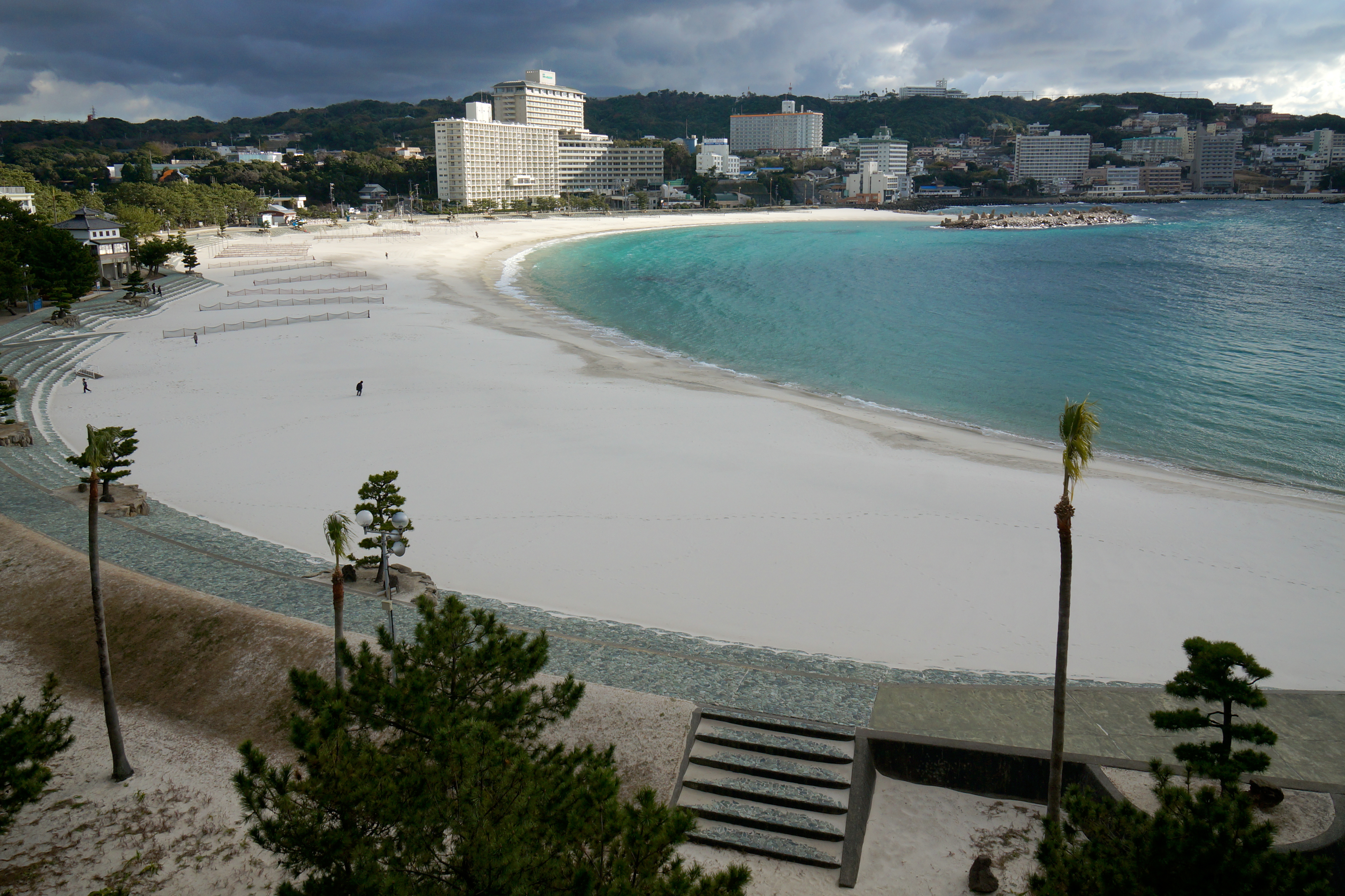 Shirarahama Beach in Shirahama, Wakayama prefecture, Japan.